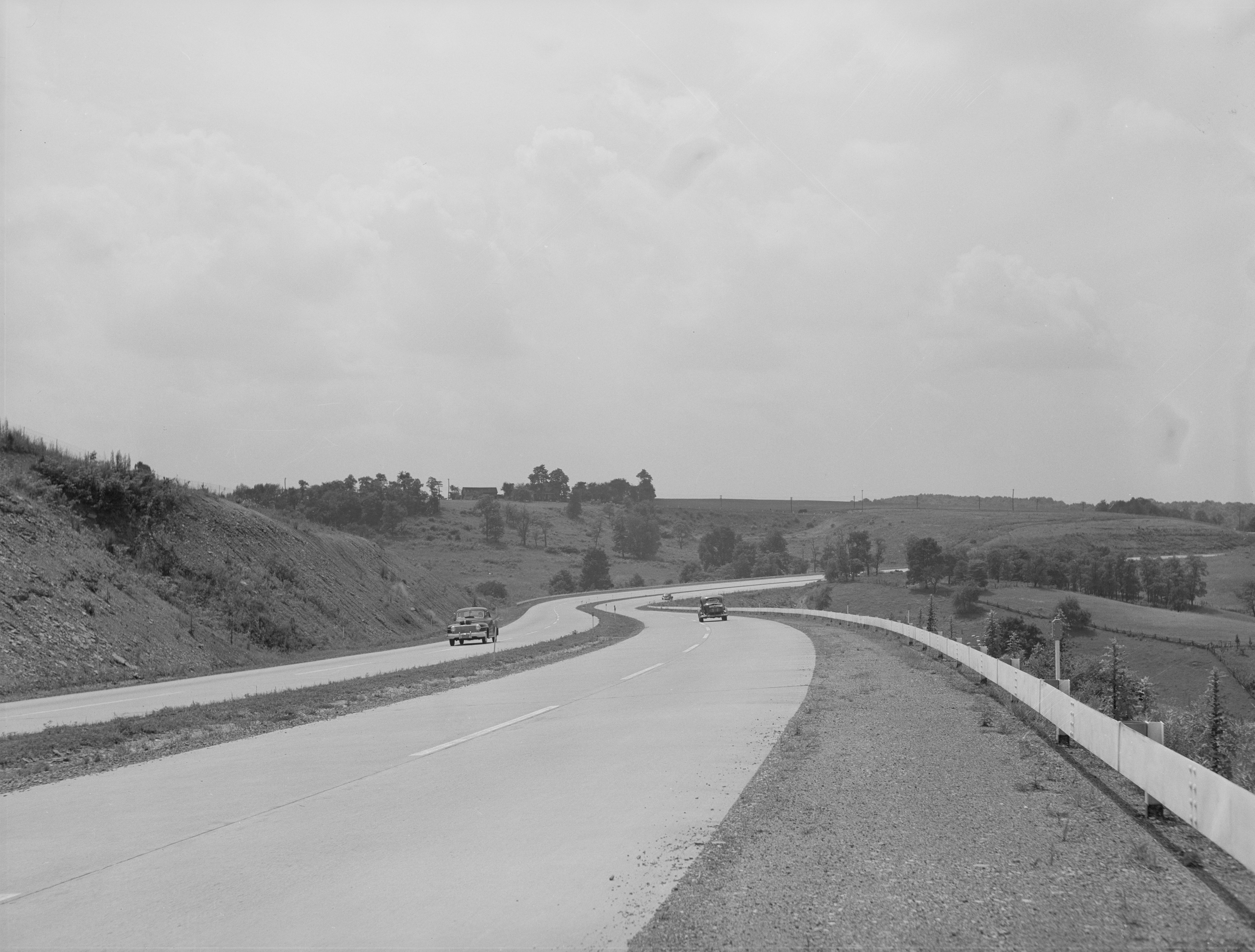 A view of the curves on the Pennsylvania Turnpike east of Fort Littleton. Taken by an employee of the Office of War Information.